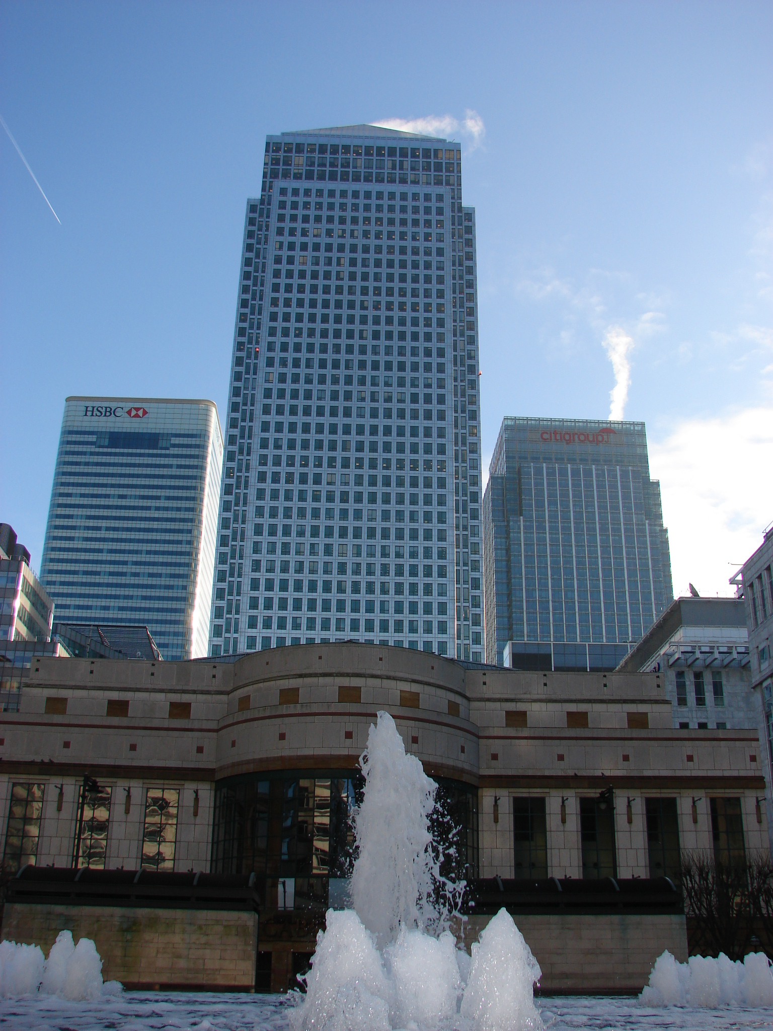 Canary Wharf Tower